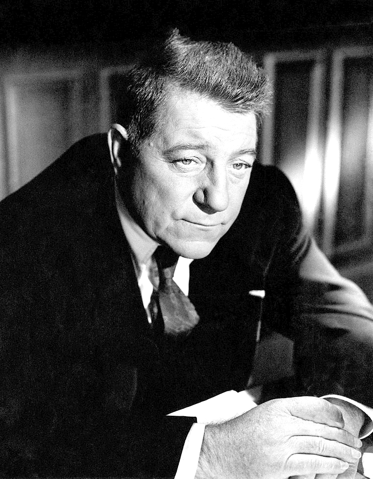 French actor Jean Gabin sitting with a cigarette between his fingers in the film The Little Rebels.